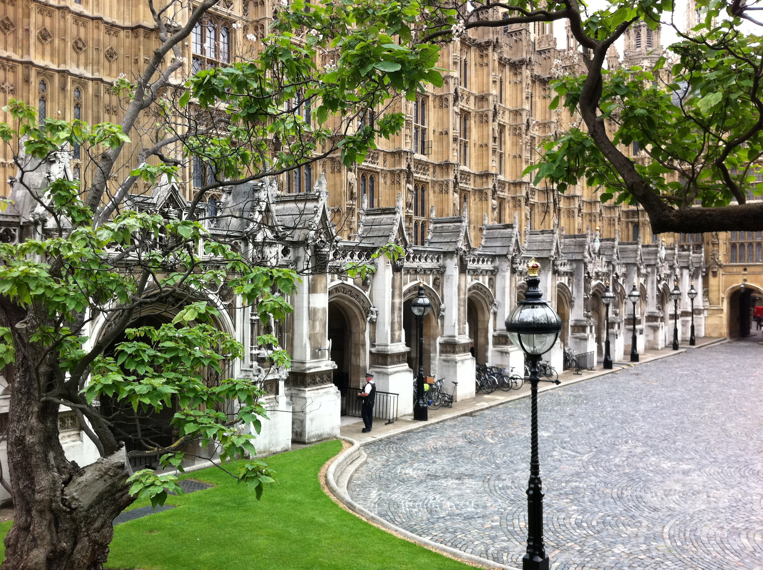 Arcade along the north side of New Palace Yard, Houses of Parliament, London